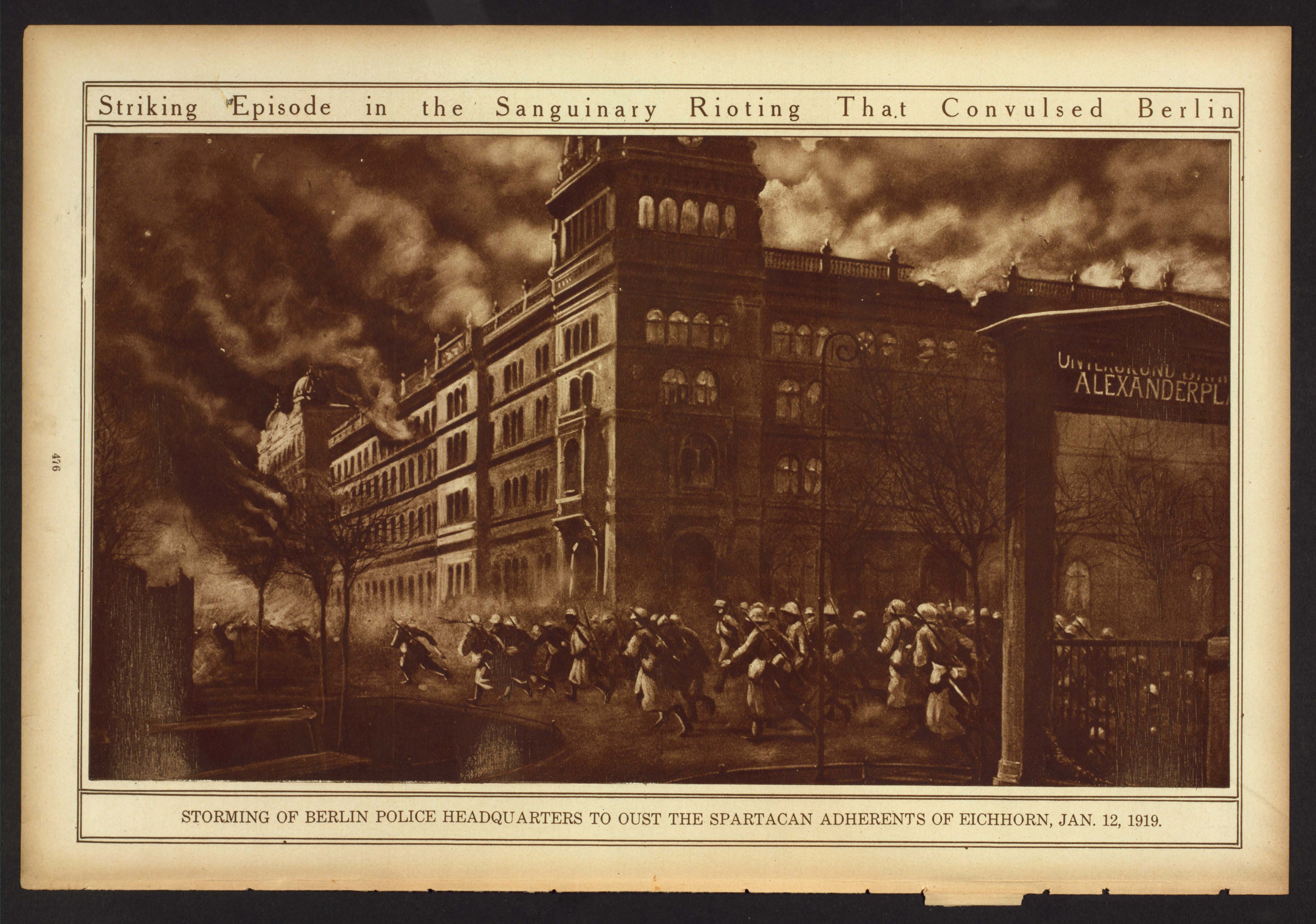 Page 476 from "The War of the Nations : Portfolio in Rotogravure Etchings : Compiled from the Mid-Week Pictorial" (New York : New York Times, Co., 1919) Notes: Selected from "The War of the Nations: Portfolio in Rotogravure Etchings," published by the New York Times shortly after the 1919 armistice. This portfolio compiled selected images from their "Mid-Week Pictorial" newspaper supplements of 1914-19. 528 p. : chiefly ill. ; 42 cm.; Subjects: World War, 1914-1918 --Pictorial works. New York--New York Format: Rotogravures --1910-1920. Rights Info: No known restrictions on reproduction Repository: Library of Congress, Serials and Government Publications Division, Washington, D.C. 20540 Part Of: Newspaper Pictorials: World War I Rotogravures, 1914-1919 (DLC) sgpwar 19191231 General information about the Newspaper Pictorials: World War I Rotogravures, 1914-1919 digital collection is available at Persistent URL: Call Number: D522 .W28 1919